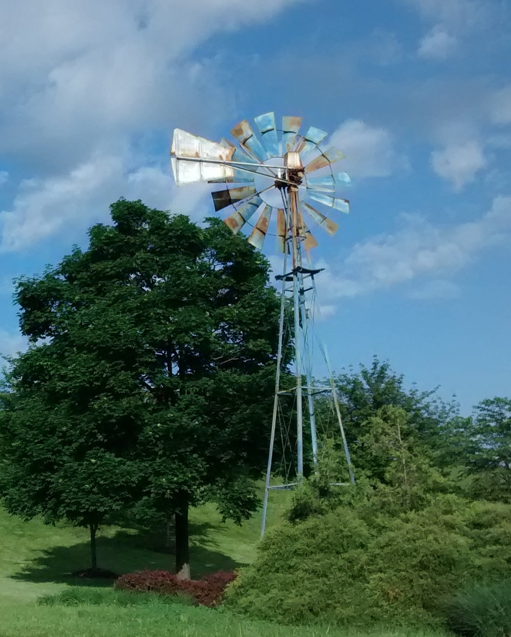 Amanda Payne's windmill